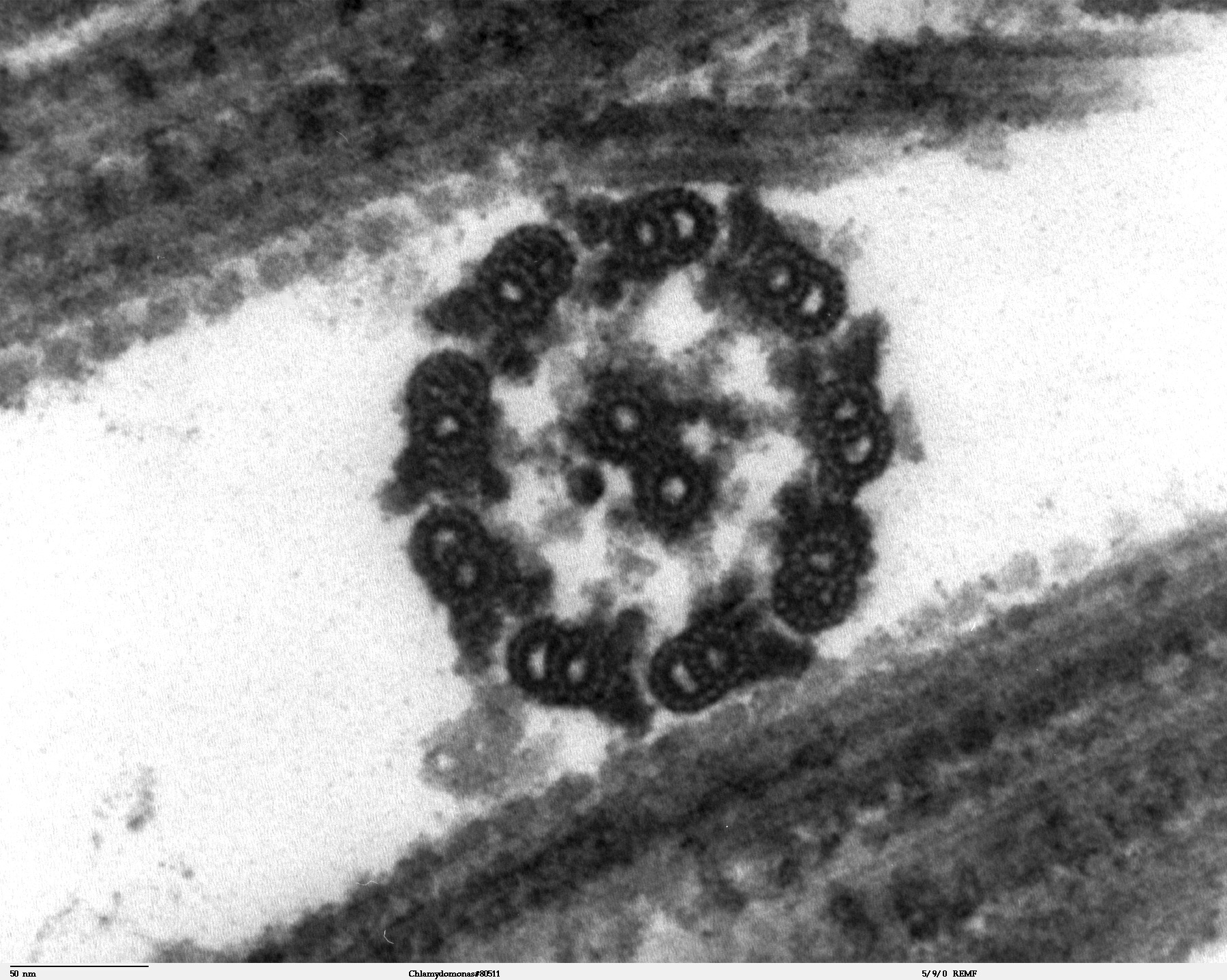 Transmission electron microscope image, showing an example of green algae (Chlorophyta). Chlamydomanas reinhardtii is a unicellular flagellate used as a model system in molecular genetics work and flagellar motility studies. This image is a thin x-section cut through the isolated axoneme. Chlamydomonas flagella have the "9+2" structure characteristic of all eukaryotic cells. The axoneme has a central unit containing two single microtubules and nine peripheral doublet microtubules (known as the "9+2"). Dynein sidearms project from the A tubule of each doublet. Also visible in this image are the radial spokes and the inner sheath. Smith, E.F and P.A. Lefebvre (1996) "PF16 Encodes a Protein with Armadillo Repeats and Localizes to a Single Microtubule of the Central Apparatus in Chlamydomonas Flagella", J. Cell Biology, 132(3): 359-370 JEOL 100CX TEM